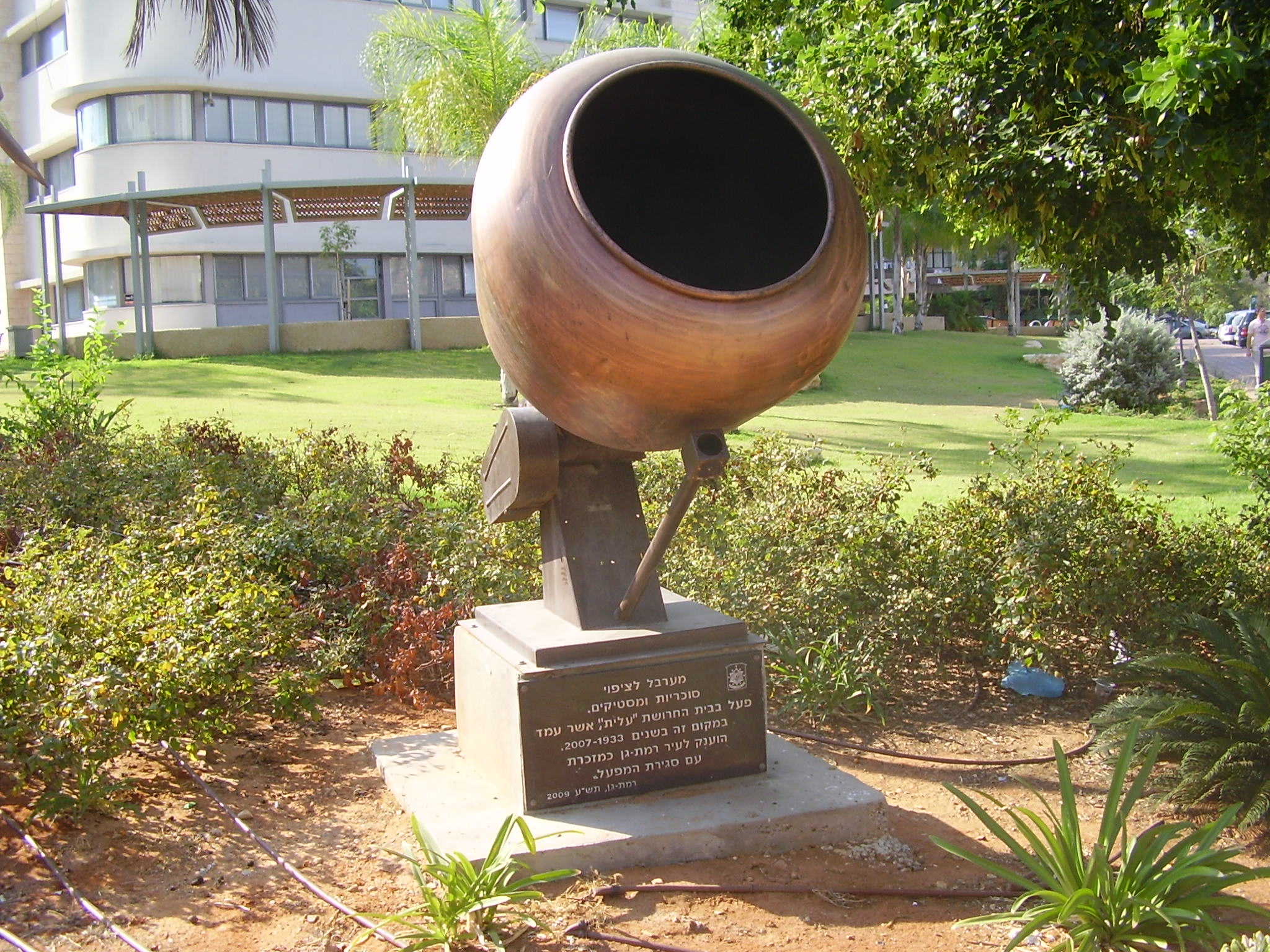 Mixer from the factory Elite in Ramat Gan